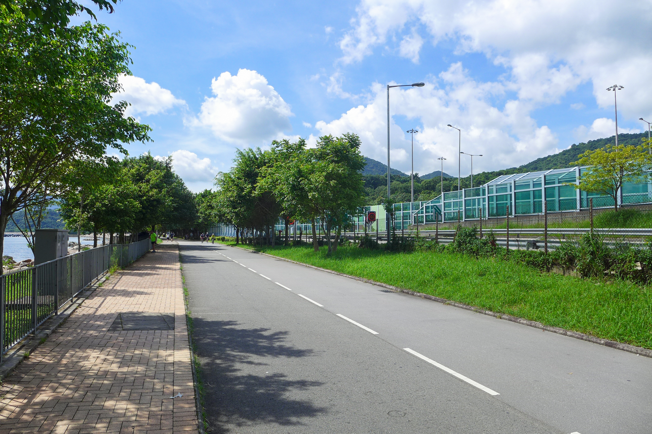 Tolo Harbour cycling track